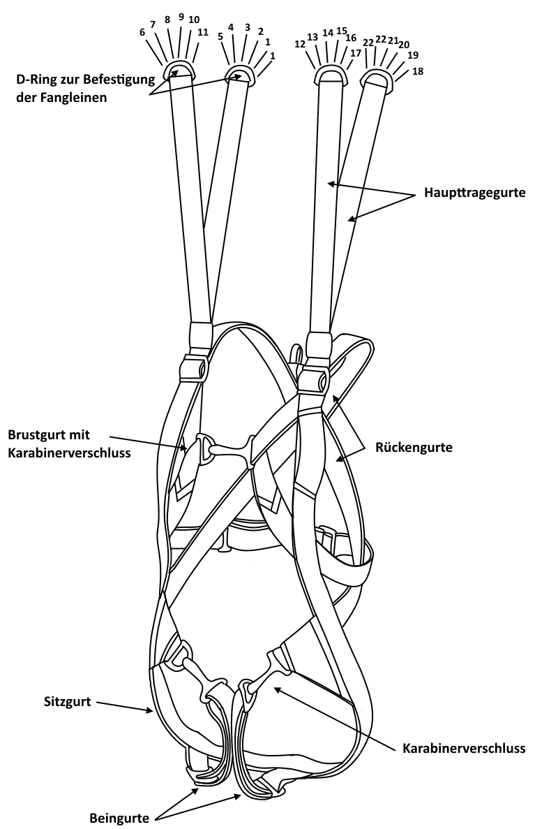 This harness was used for the parachtes PD-47 and D-1 developed in Russia.